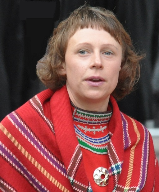 Wedding of Victoria, Crown Princess of Sweden, and Daniel Westling; Arrival of members for the Gouvernment and Swedish and foreign guests of hounour to the Riksdag's Gala Performance at Konserthuset: Ms Sara Larsson, member of the Sami Parliament of Sweden